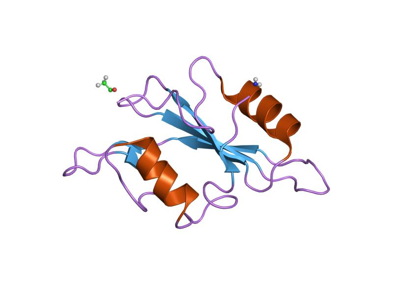 Cartoon representation of the molecular structure of protein registered with 1luk code.